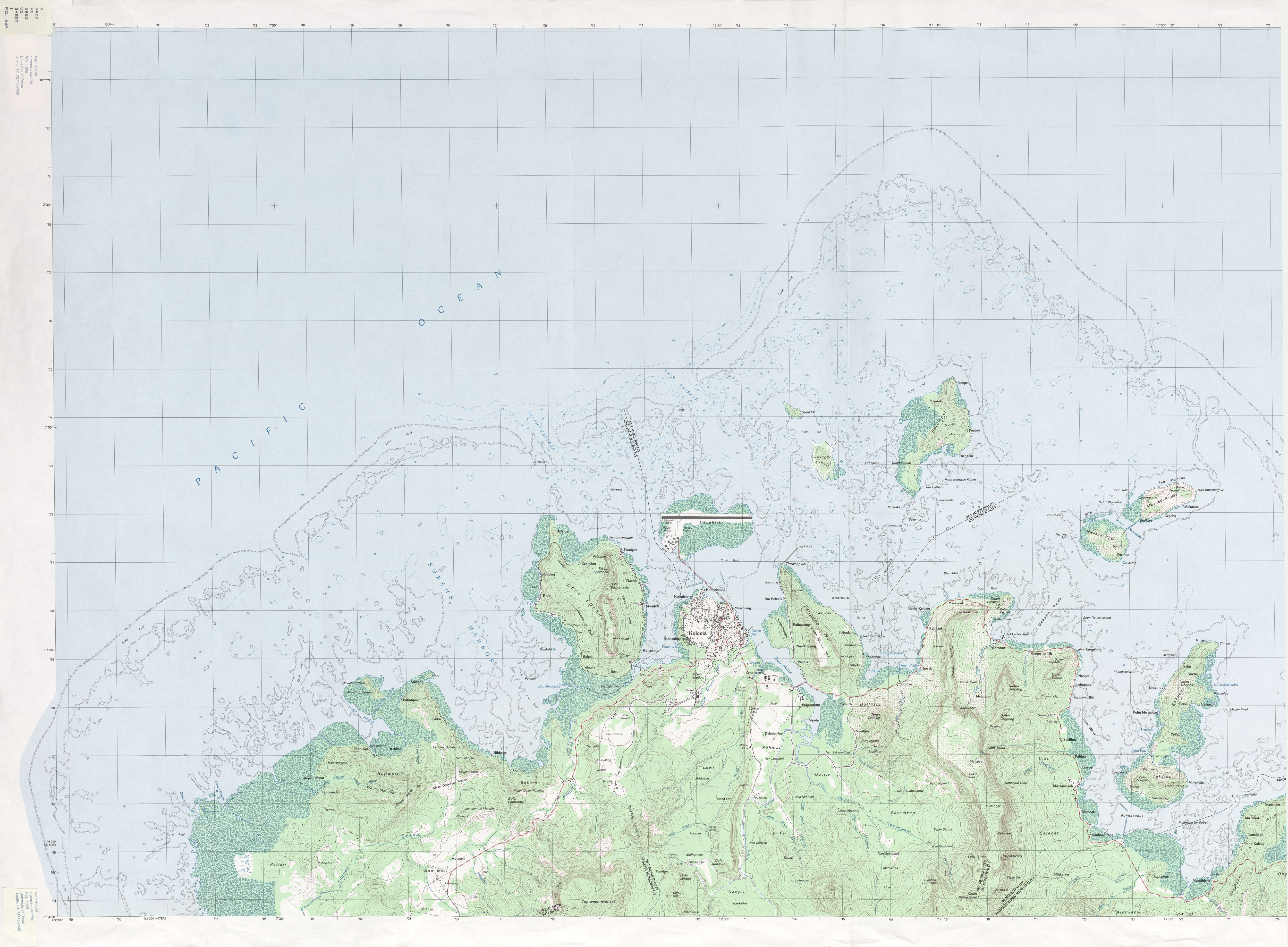 Pohnpei Island Northwest, Micronesia, Pacific Ocean